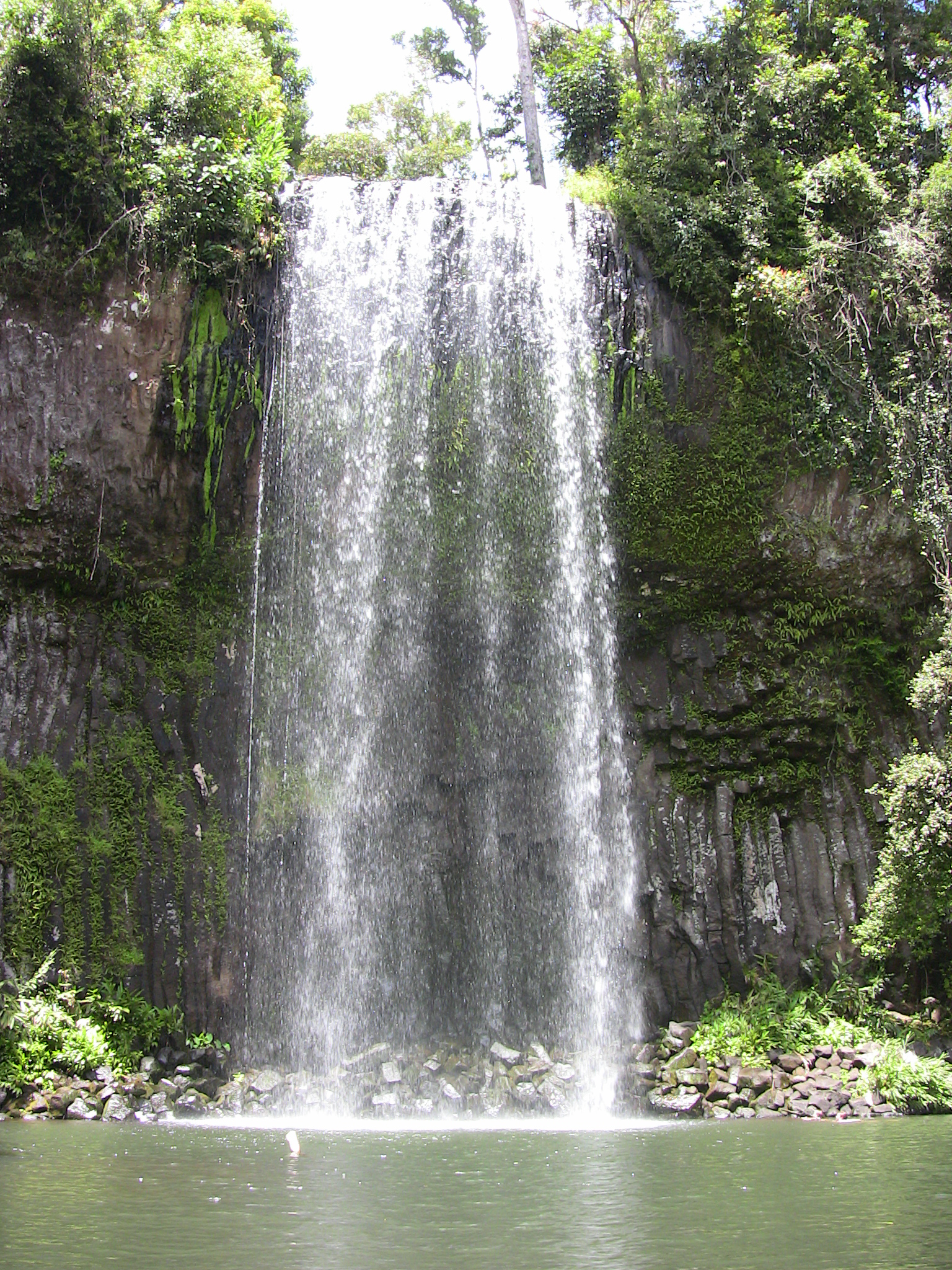 Milaa Milaa falls